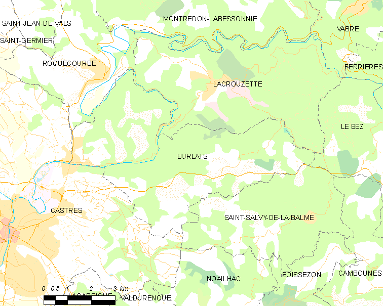 Map commune FR insee code 81042.png - Burlats